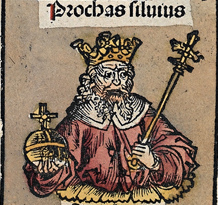 Procas Silvius from Nuremberg chronicles